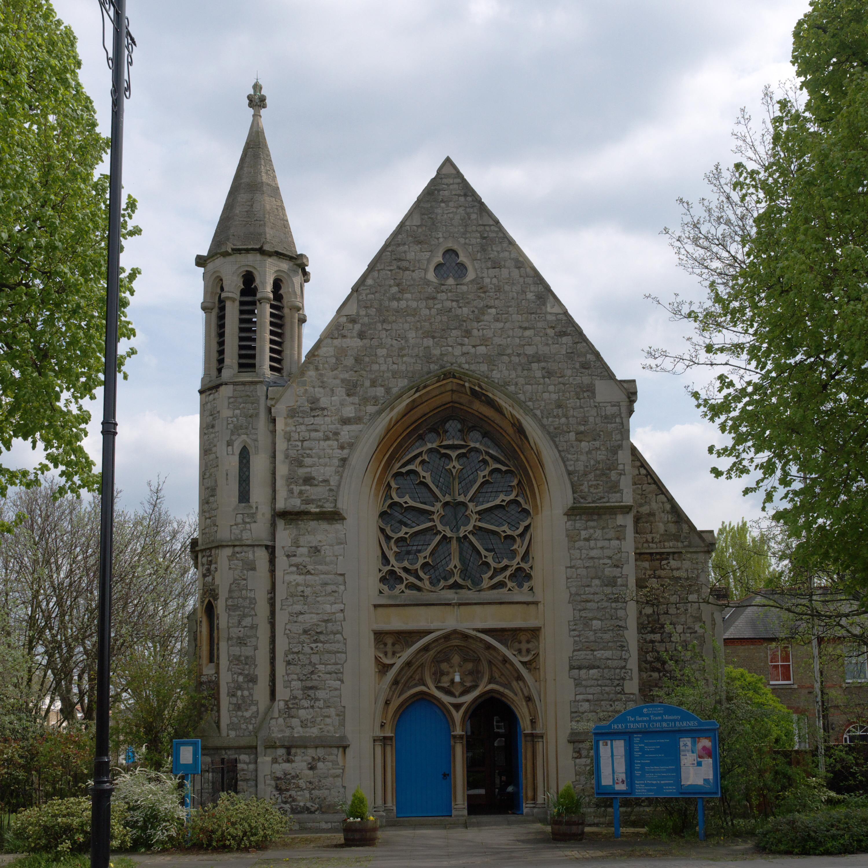 Holy Trinity parish church, Castlenau, Barnes, southwest London